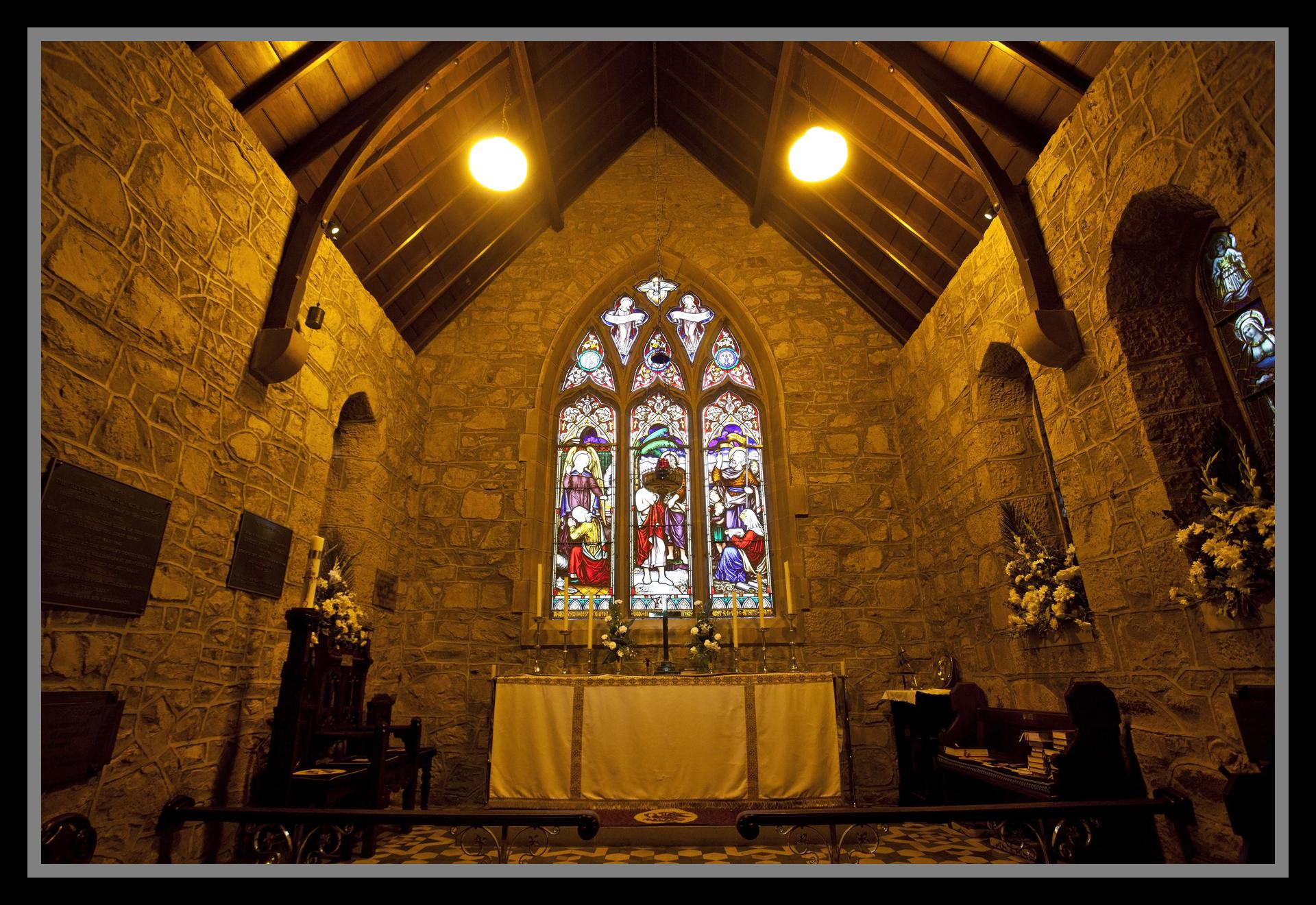 St Johns Church Canberra